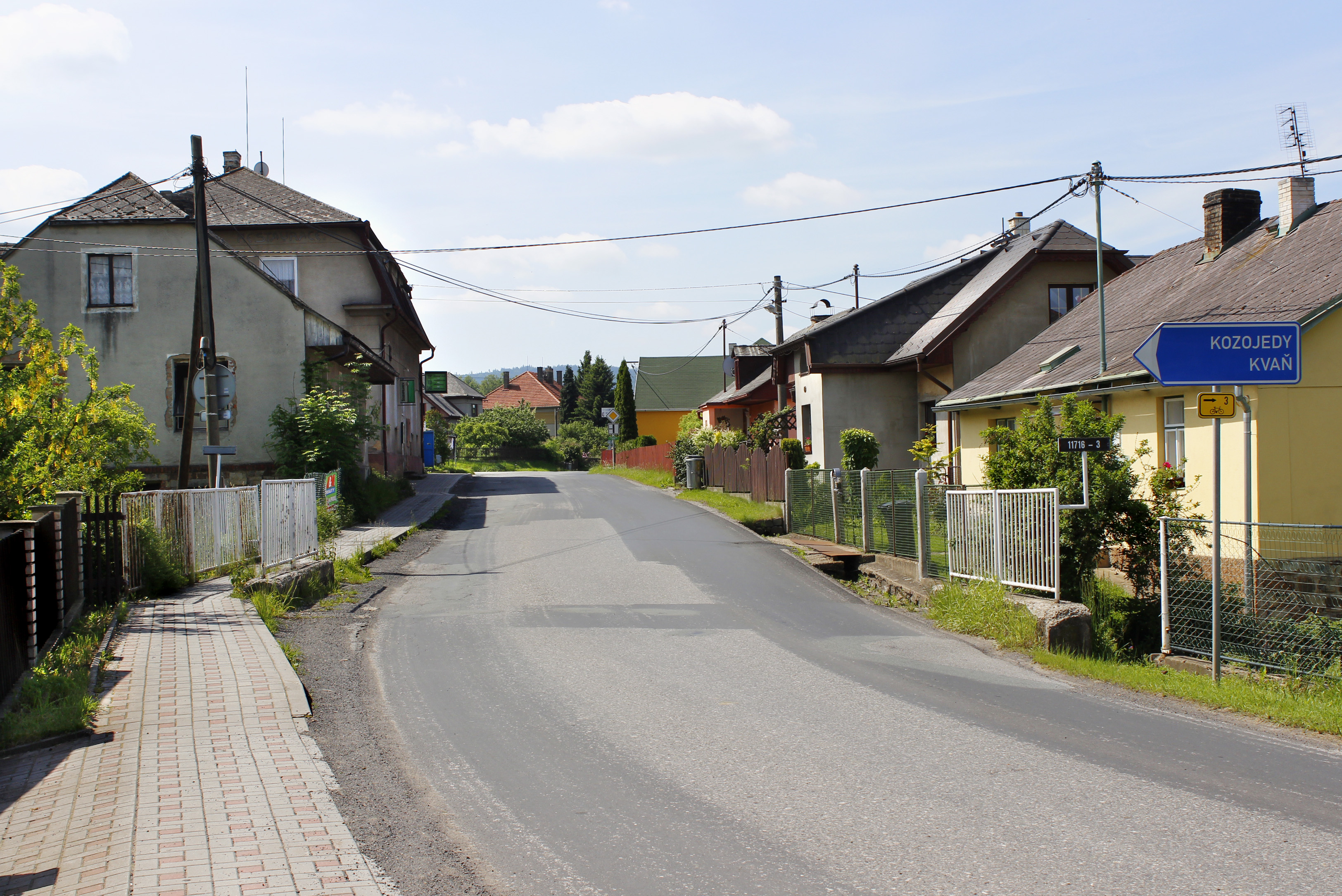 Local part "V Hamburku" in Zaječov, Czech Republic